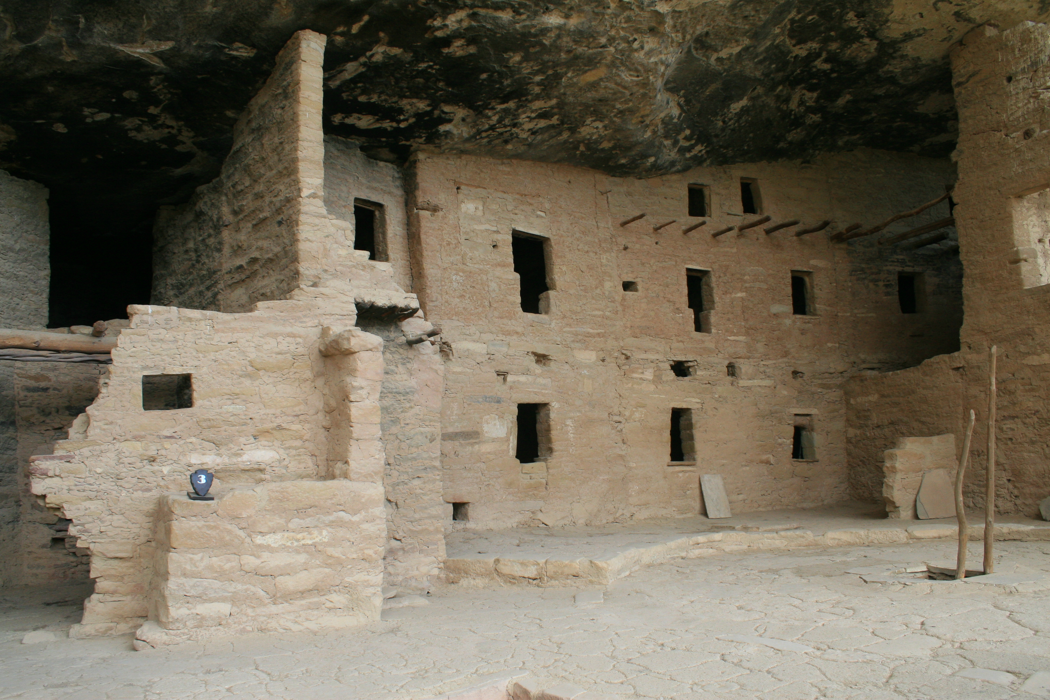 Mesa Verde National Park, Colorado Three-storeyed house at Spruce Tree House.